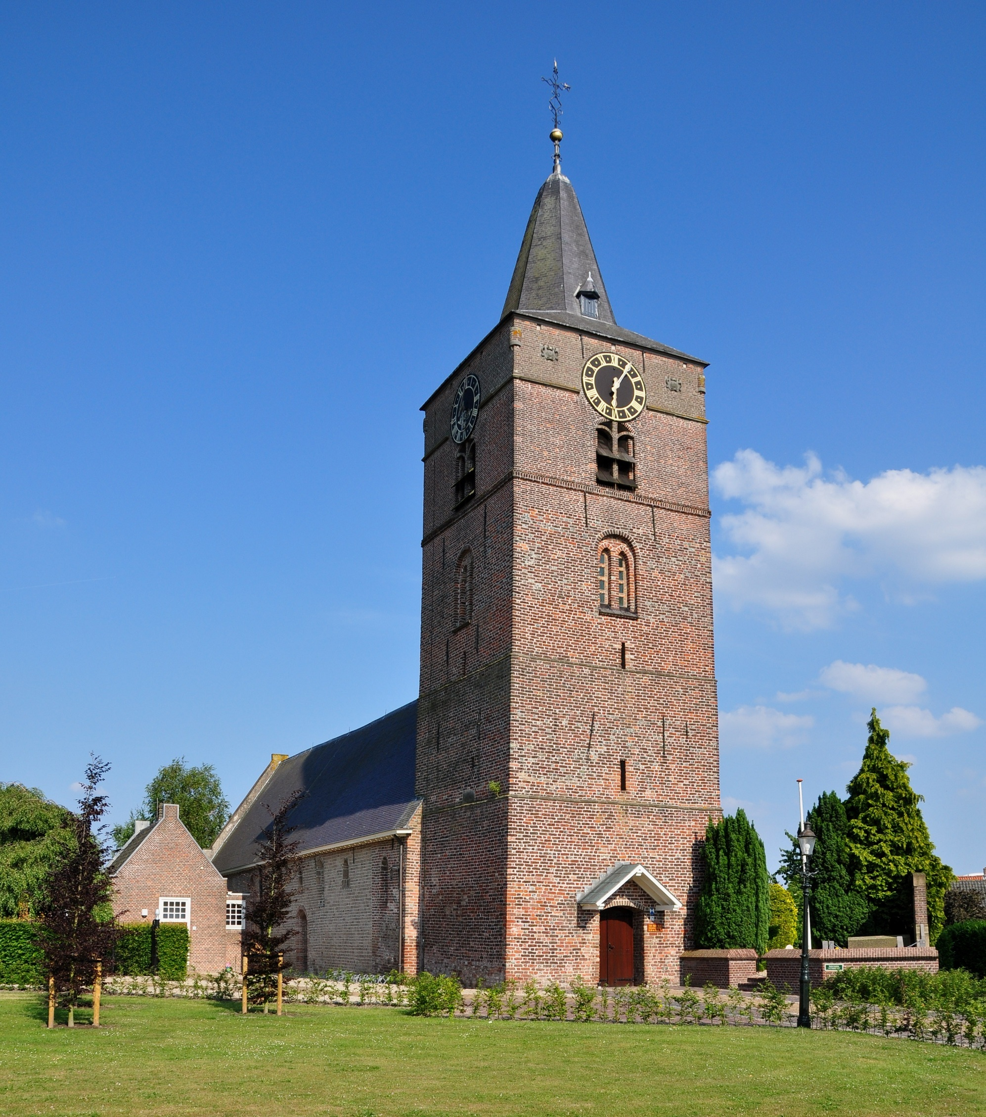 The Dutch Reformed Church in Veen (Municipality of Aalburg, Province of North Brabant, Netherlands).